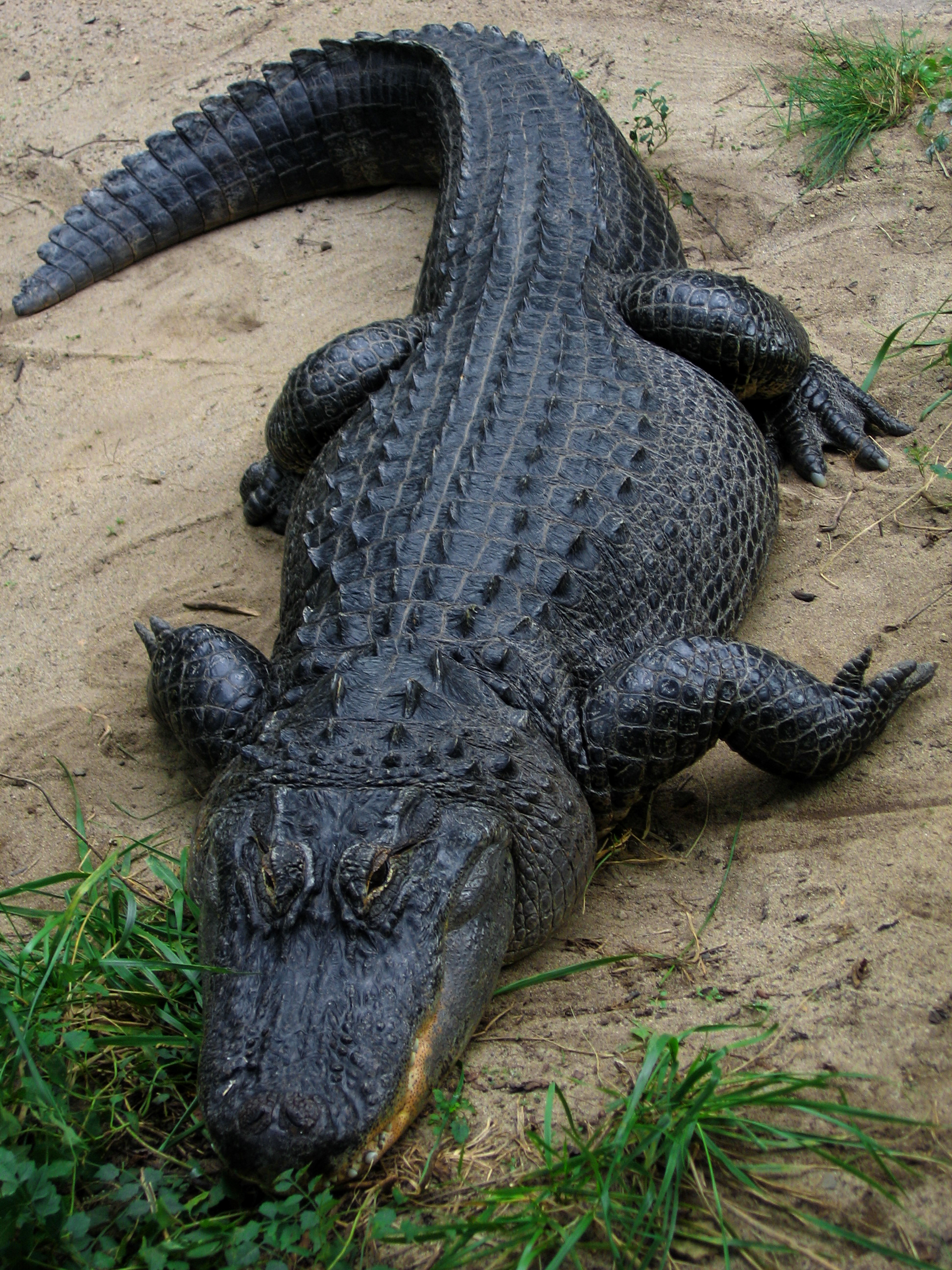 An American Alligator (One of two) in captivity at the Columbus Zoo, Powell, Ohio.